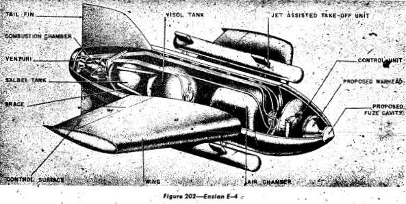 German suface to air Rocket